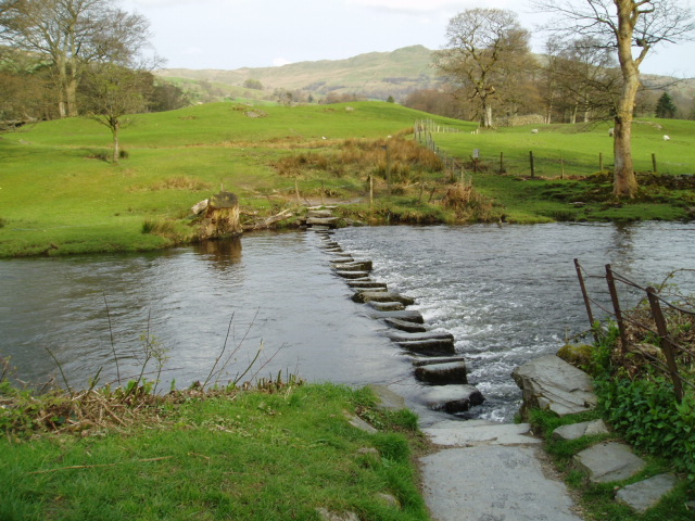 Stepping Stones. Stepping stones across the River Rothay, picture taken from the minor road on the west bank of the river at NY36543 05524.